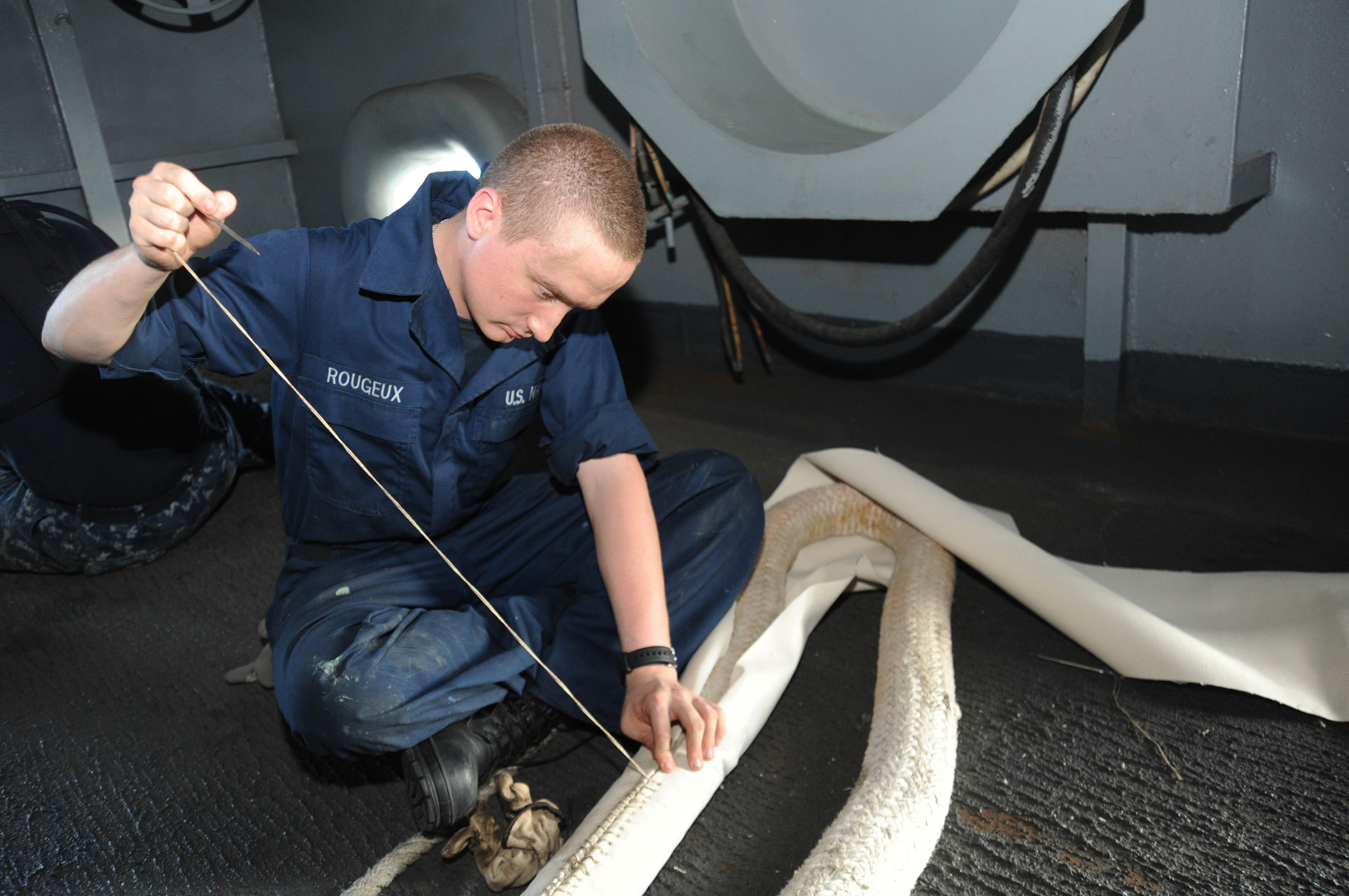 ARABIAN SEA (Nov. 26, 2012) Seaman Andrew Rogeux sews chafing gear on a mooring line aboard the Nimitz-class aircraft carrier USS Dwight D. Eisenhower (CVN 69). Dwight D. Eisenhower is deployed to the U.S. 5th Fleet area of responsibility conducting maritime security operations, theater security cooperation efforts and support missions as part of Operation Enduring Freedom. (U.S. Navy photo by Seaman Brian Wilbur/Released) 121126-N-ZZ999-011 Join the conversation